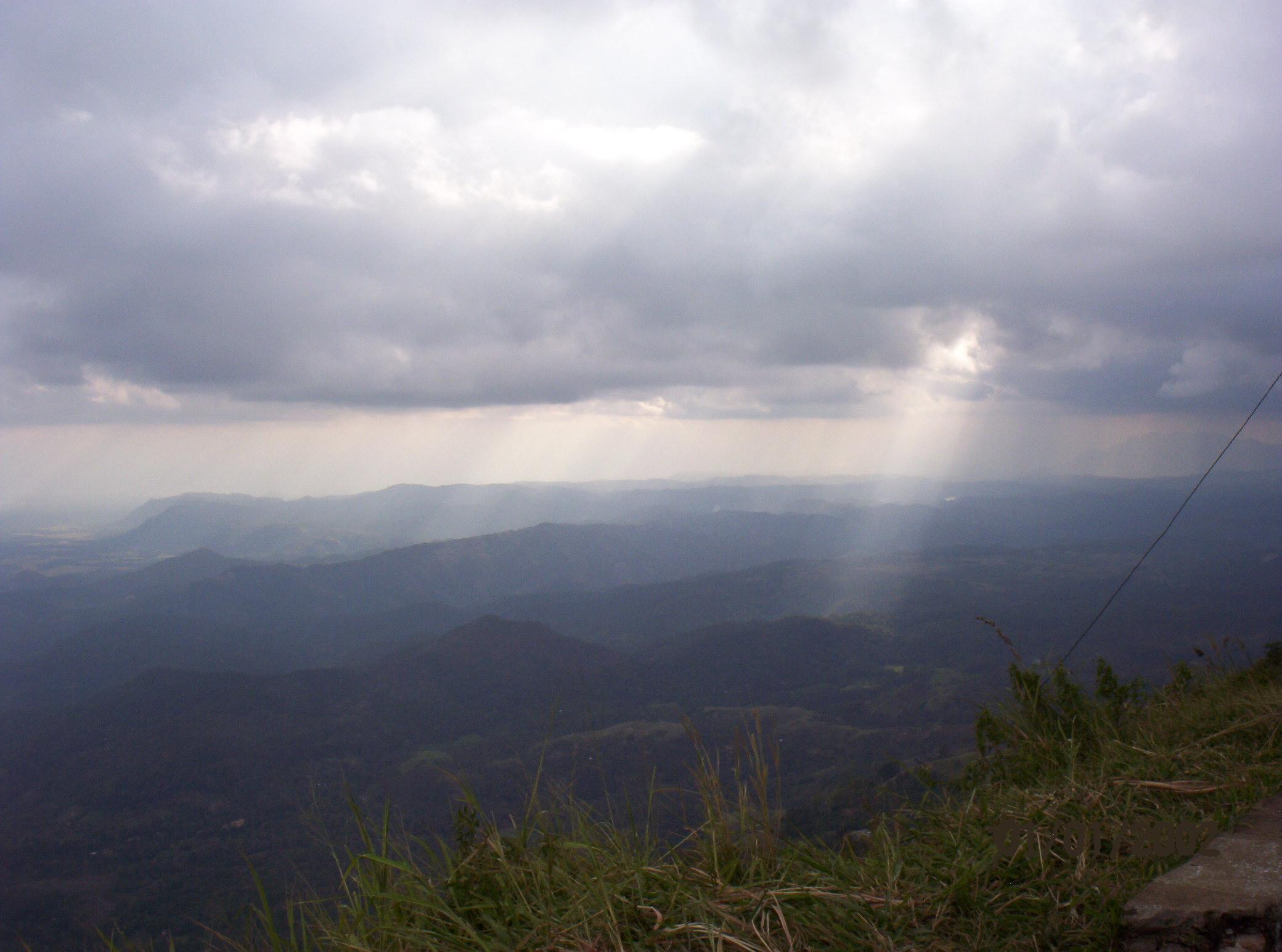 View from Haputale-Beragala gap